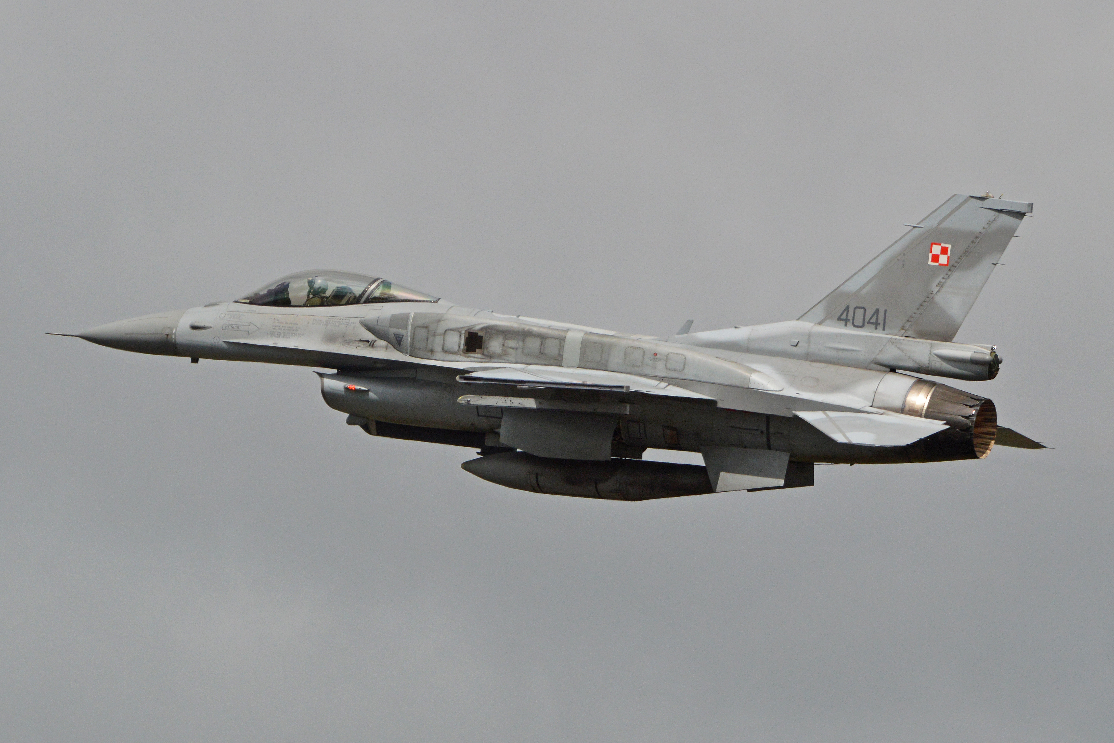 Polish Air Force F-16 Fighting Falcon departing Schleswig Air Base during the 2014 NATO Tiger meet. The aircraft was allocated US military construction number 03-0041, and is currently operated by the Polish 6th Tactical Aviation Squadron (6th ELT) (6 Eskadra Lotnictwa Taktycznego) based at the 31st Air Base in Poznań, with the designated registration number 4041.